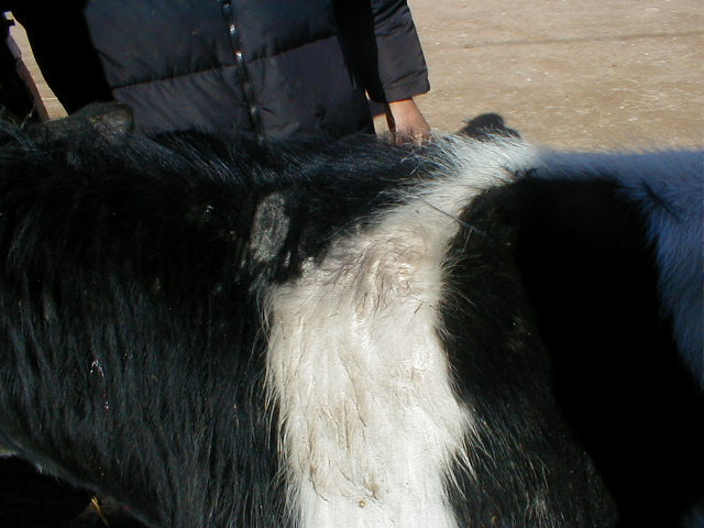 ringworm on withers in a calve